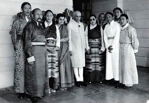 The Tibetan Delegation to India met with Indian Prime Minister Nehru at his residence in New Delhi in 1950. Front row: Tsecha Thubten Gyalpo, Pema Yudon Shakabpa (wife of Tsepon Shakabpa), Indira Gandhi, Prime Minister Jawaharlal Nehru, Tsering Dolma (older sister of His Holiness the Dalai Lama), Tsepon Wangchuk Deden Shakabpa, Depon Phuntsok Tashi Takla (husband of Tsering Dolma). Back row: Dzasa Jigme Taring, Unknown monk (Geshe Lodo Gyatso?), and Chepon Chemo Driyul (brother-in-law of Tsepon Shakabpa).